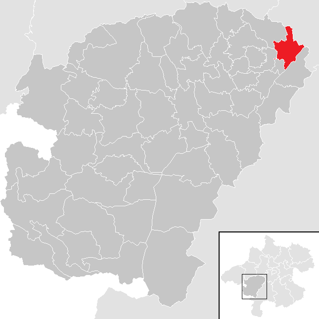 District Vöcklabruck